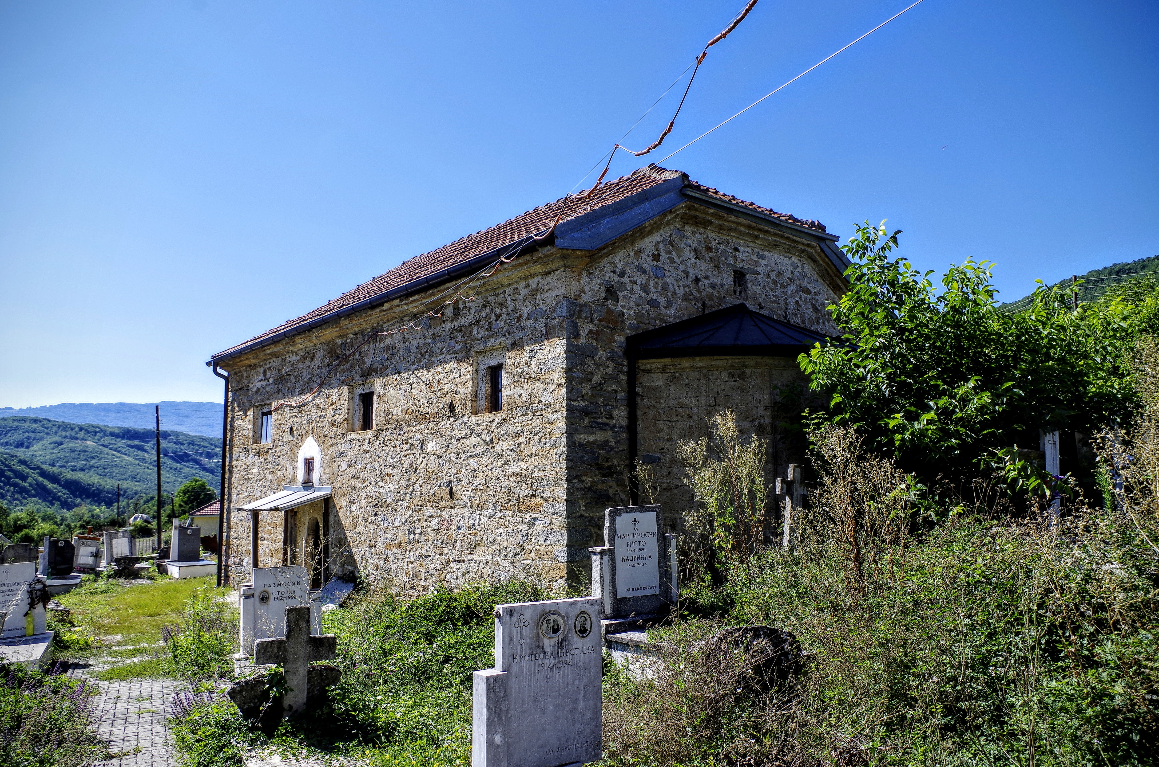 View of the St. Nedela Church in the village Slatino